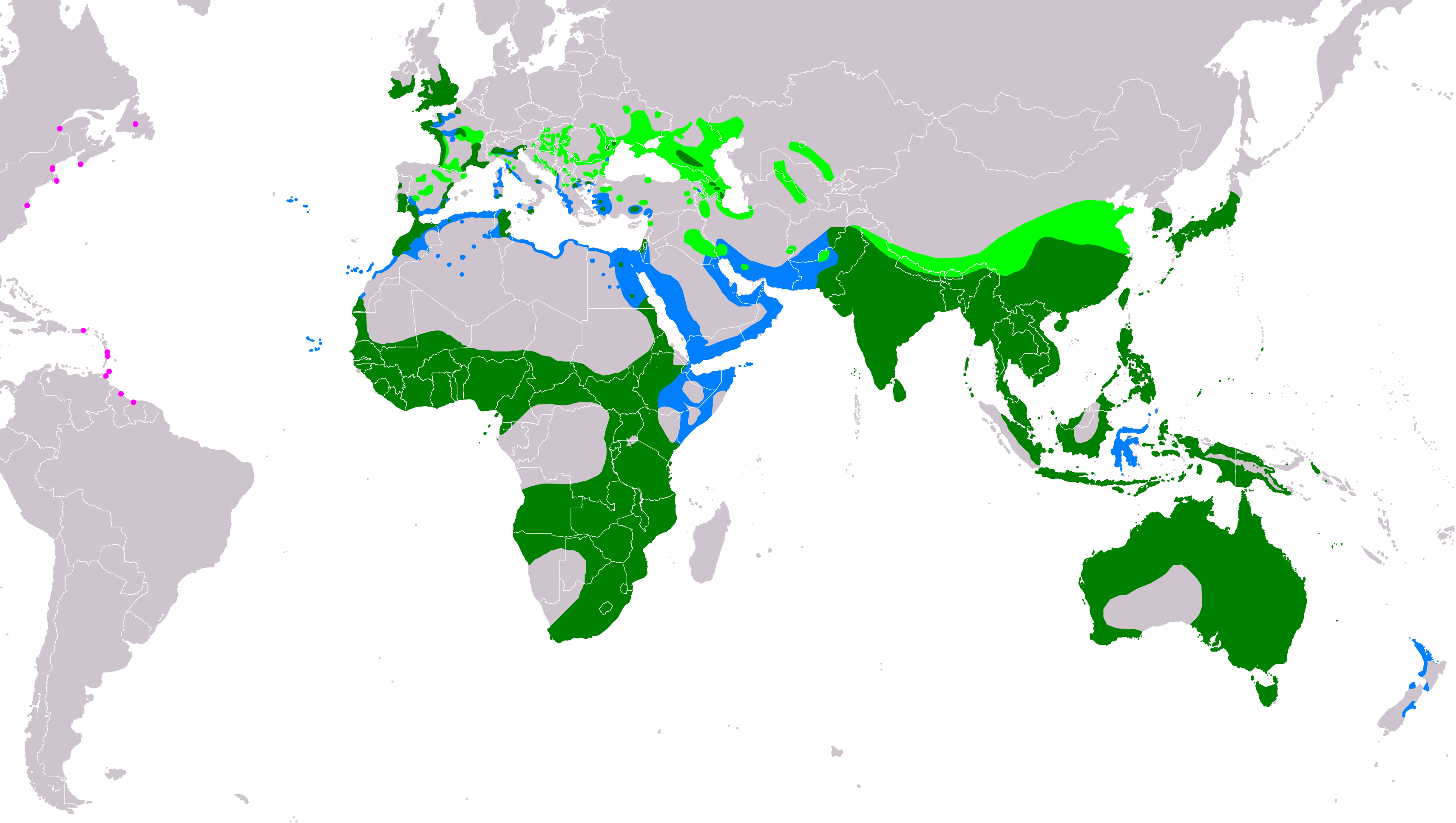 distribution map of little Egret (Egretta garzetta) according to IUCN version 2018.2 , Legend: Extant, breeding (#00FF00), Extant, resident (#008000), Extant, non-breeding (#007FFF), Extant & Vagrant (seasonality uncertain) (#FF00FF)